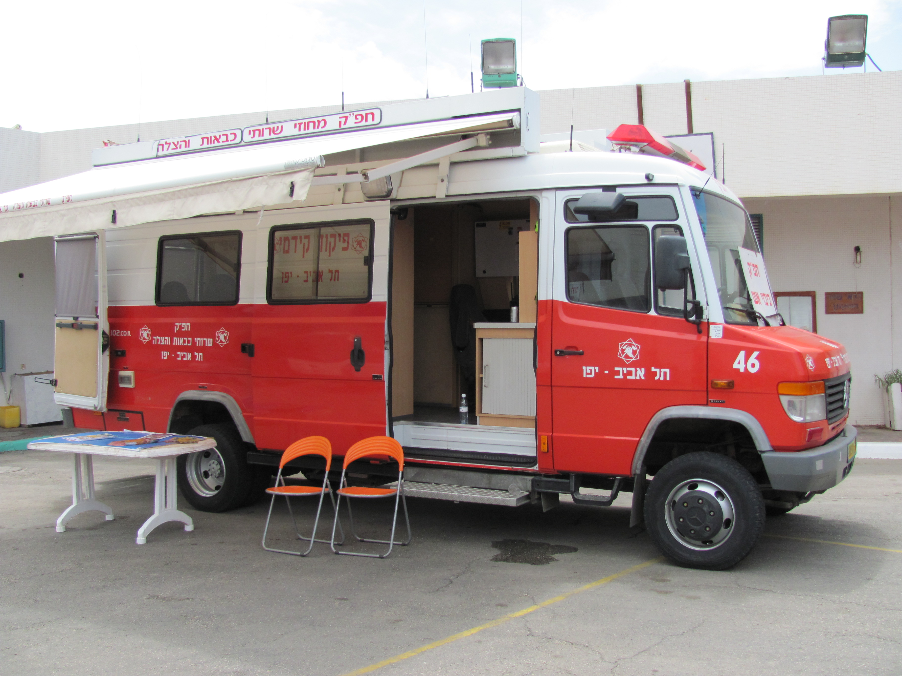 Tel Aviv Fire Department's mobile command post.